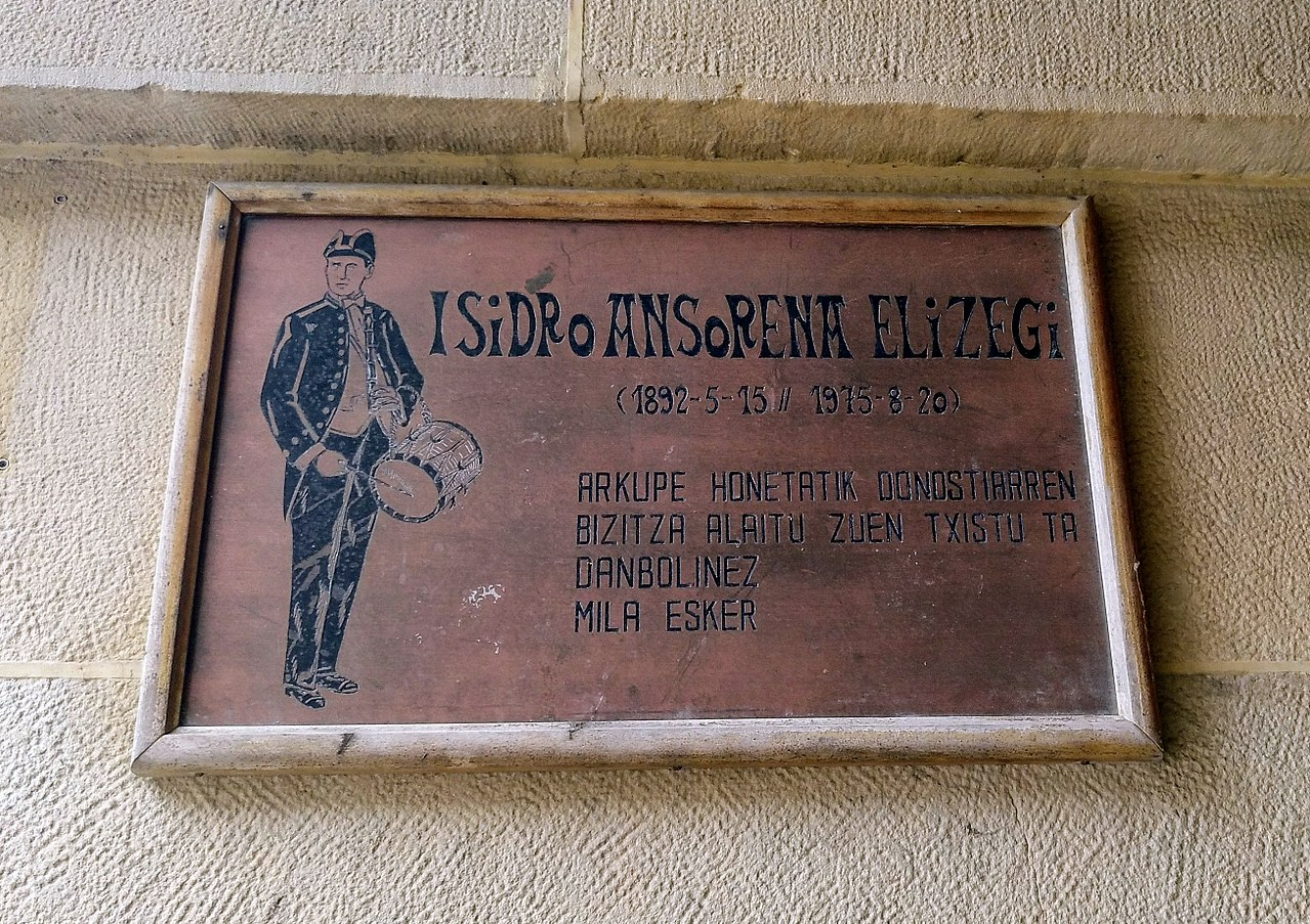 Isidro Ansorena txistularia